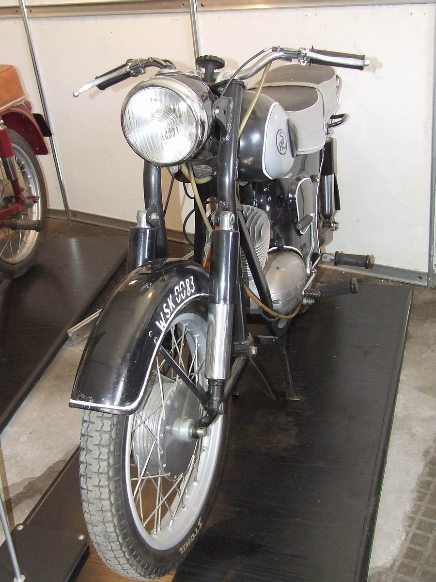 Polish SHL 175 M11 motorcycle, 1961-1968